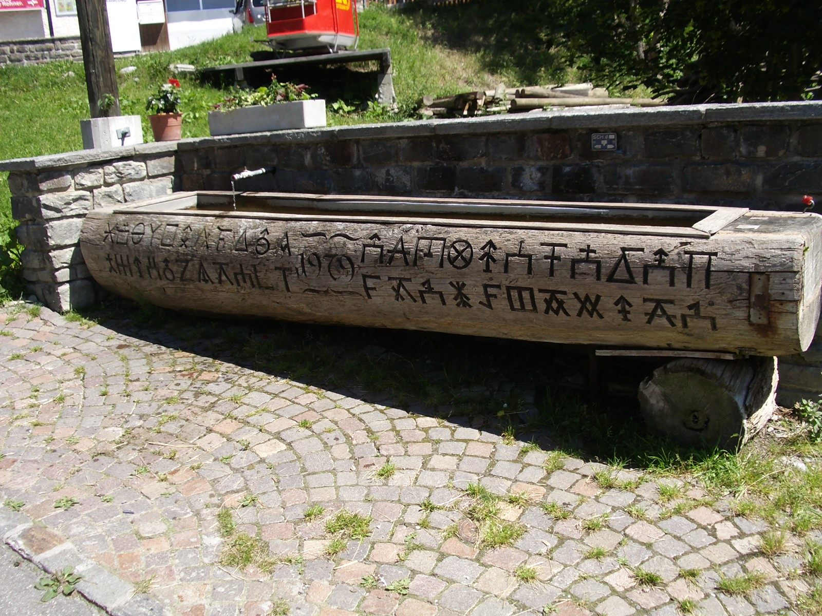 Feldis GR, Switzerland